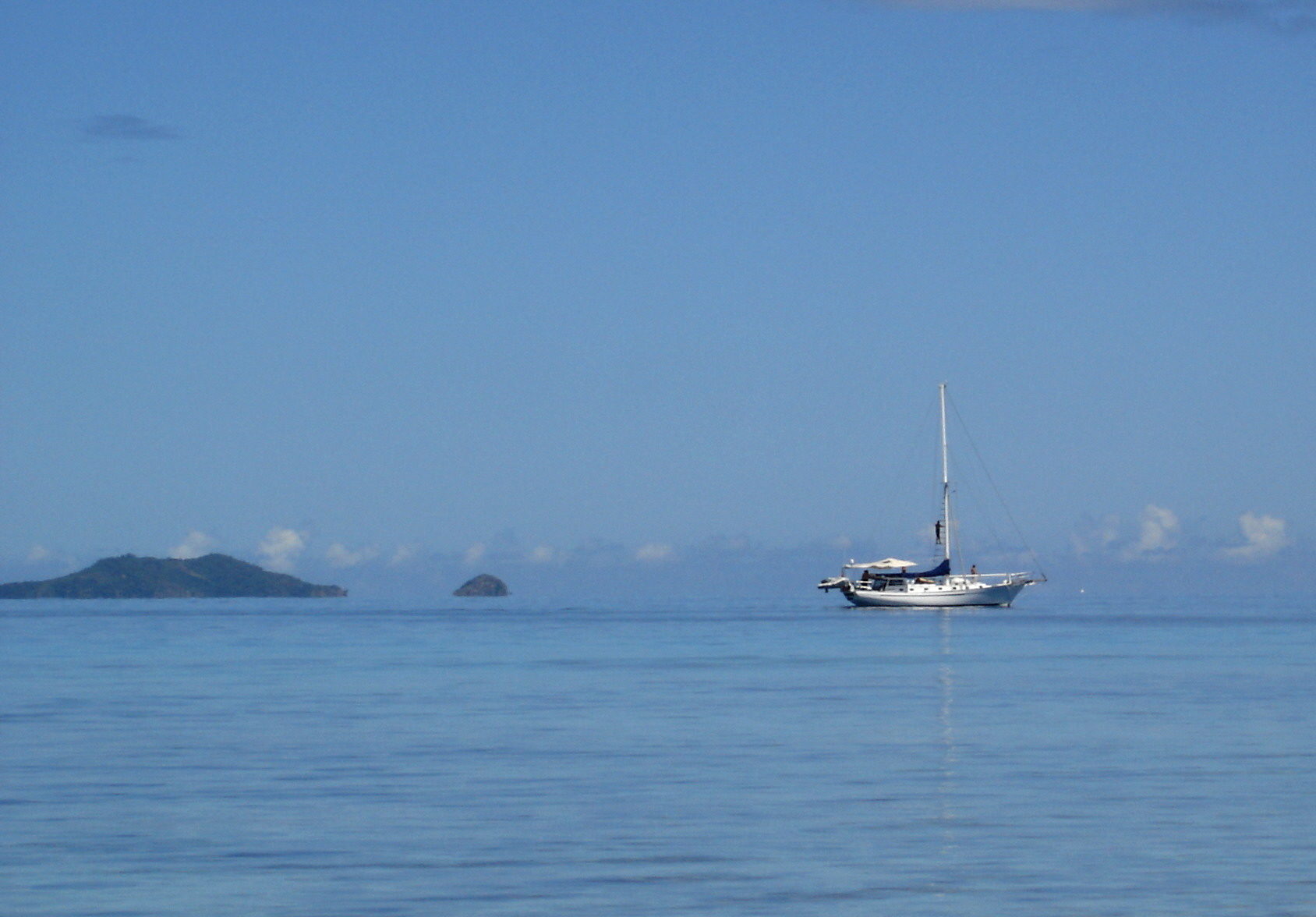 Small yacht, calm weather, not under sail, Pacific ocean, Fiji Islands